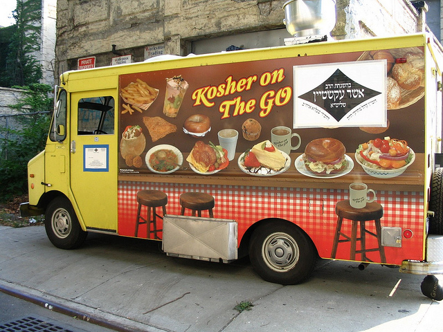 Worksman Vending Truck